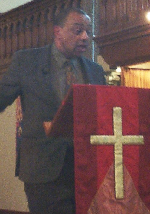 The Rt Hon. Paul Boateng preaching at a Christian Aid service in Wesley Memorial (Methodist) Church, Oxford, 2005-05-15. Copyright © Kaihsu Tai.